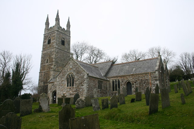 St Winwaloe, Poundstock. A church has stood upon this spot for 14 centuries, and the mediaeval Guildhouse which stands nearby is the only surviving one of its kind in Cornwall.